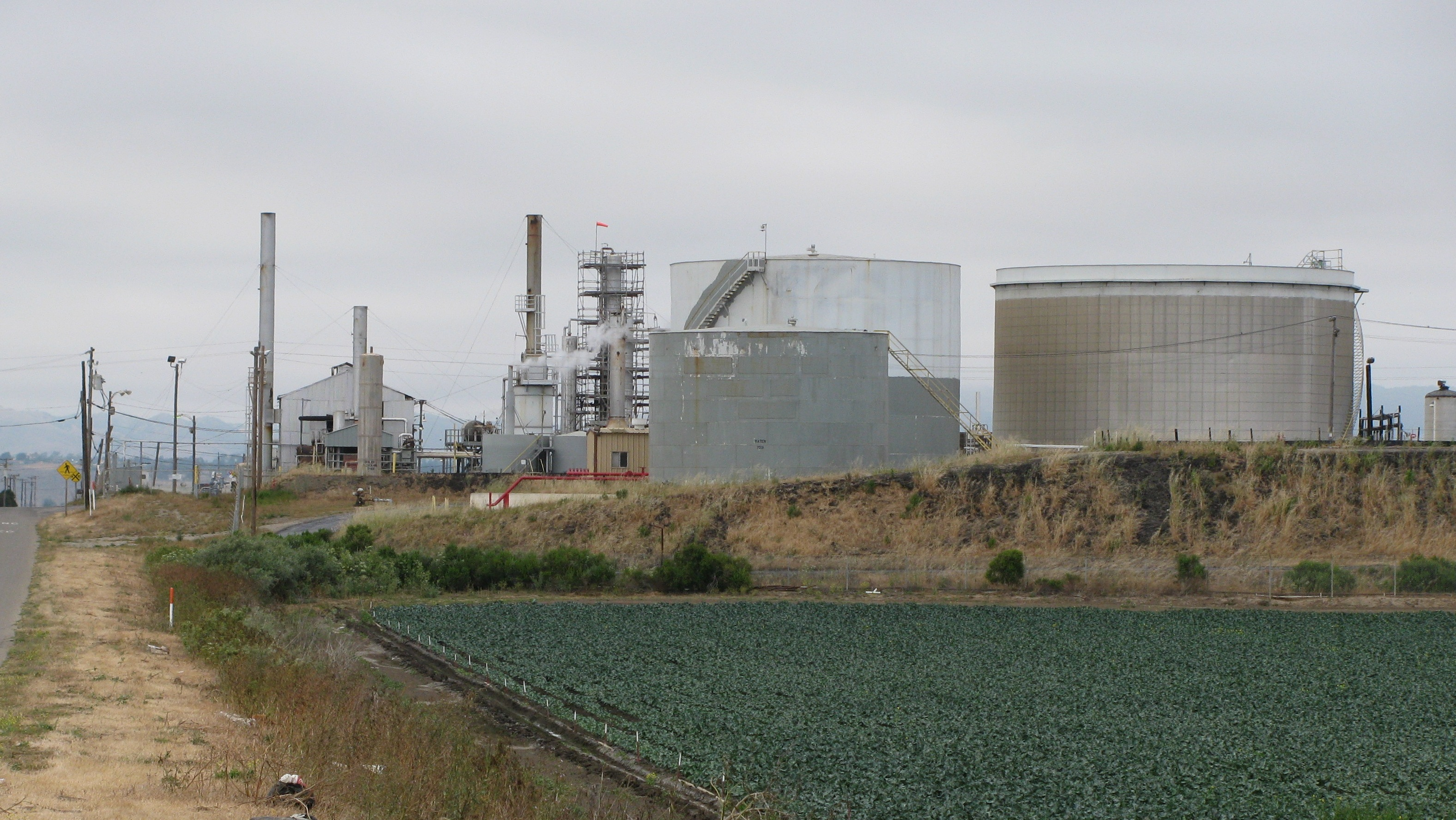 Greka asphalt refinery, Santa Maria, CA; GFDL; photograph by self, May 31, 2009